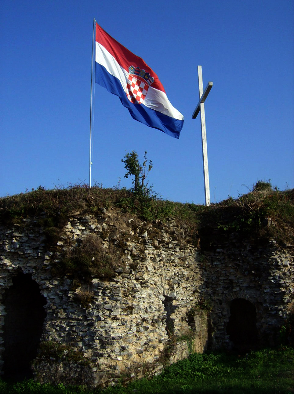 Fortress in Cetingrad (Croatia)